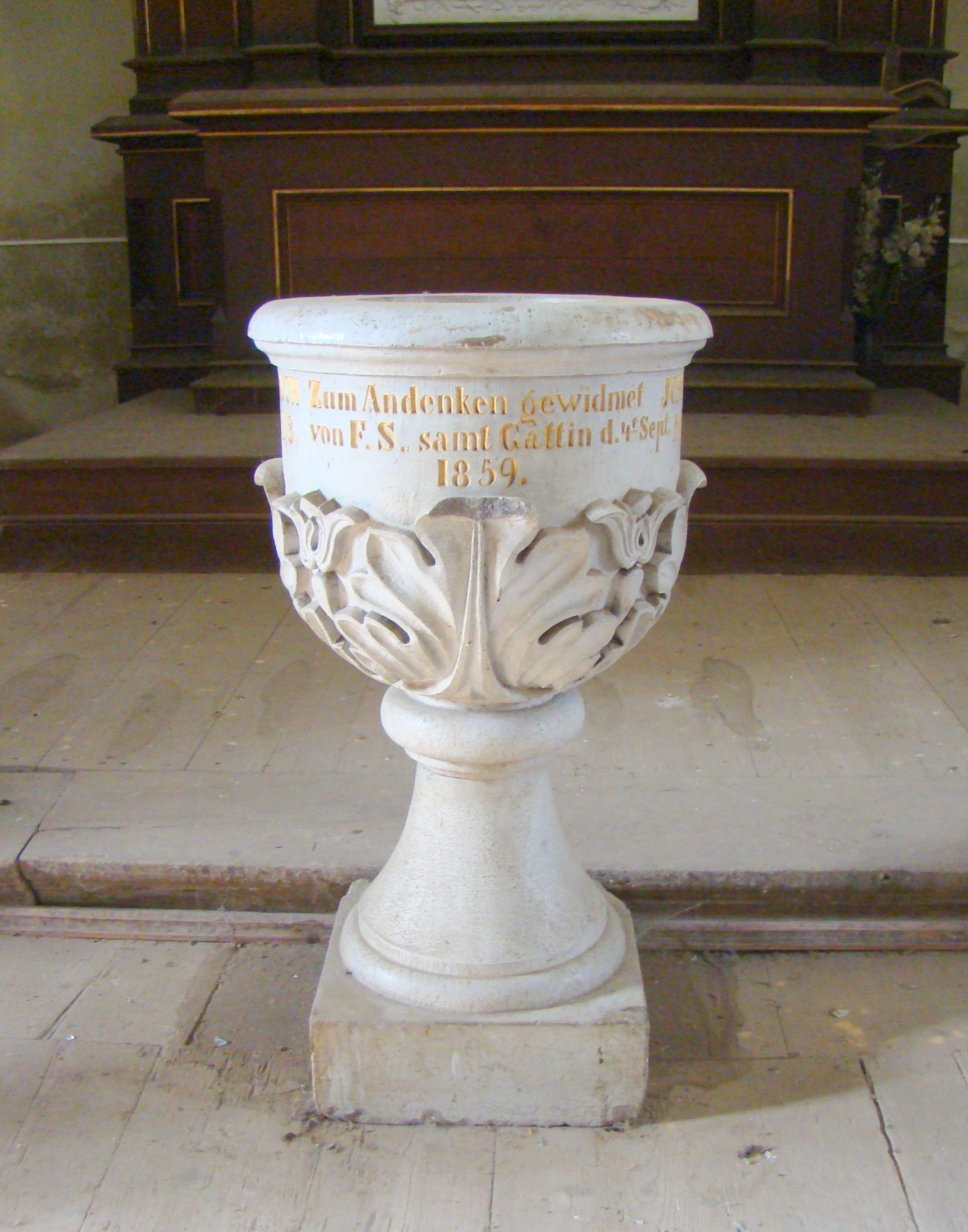 Lutheran church in Șercaia, Brașov County, Romania